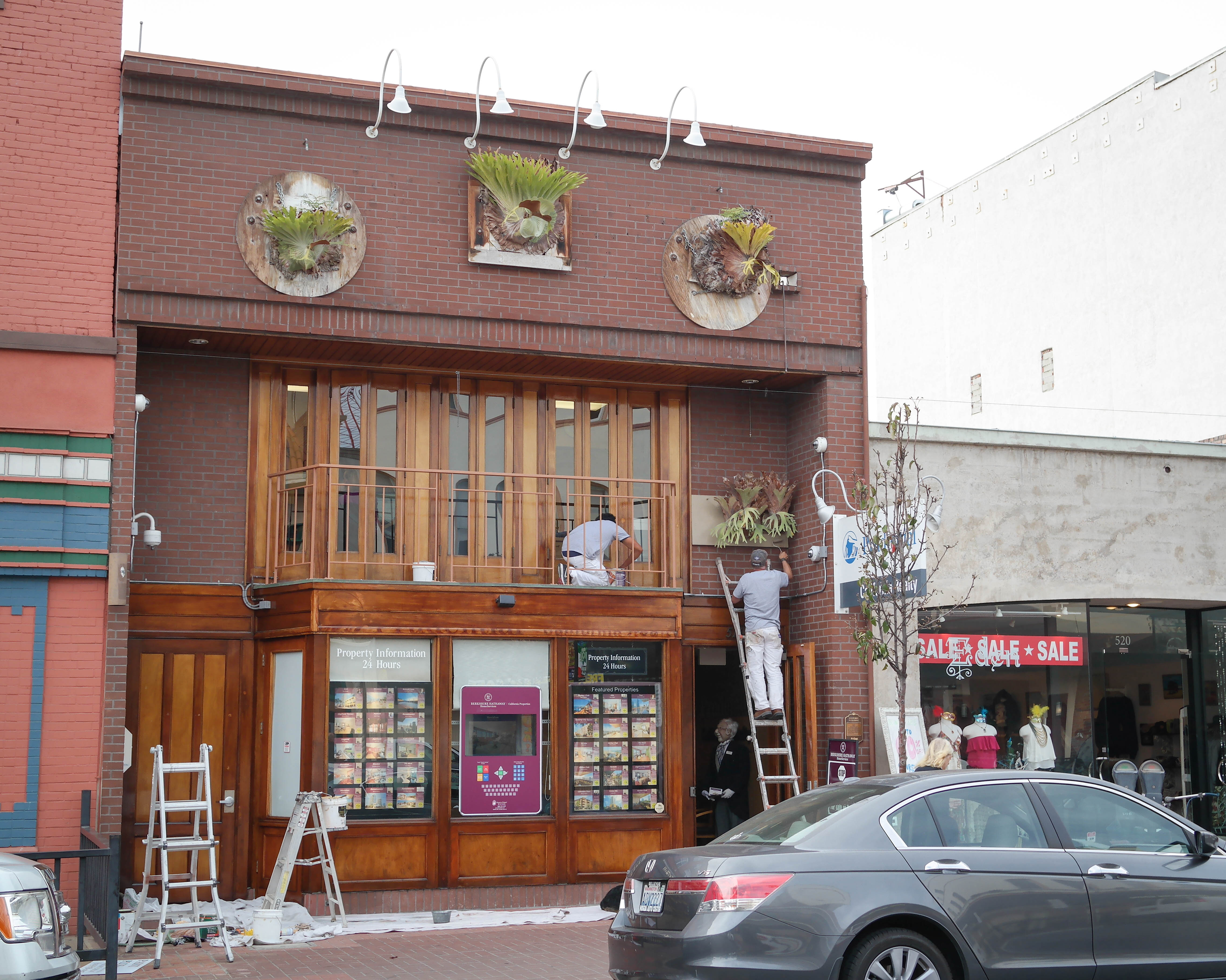 Historic Building Survey plaque: "61 Yamada Building, 1869. Although this building was not originally built by or used by Oriental tenants, it has found its home in the Asian community due to a succession of Japanese owners beginning in 1920. Under various proprietors, the structure was used primarily as a theatre and billiard hall. The building gets its name from Frank Yamada who operated Frank's Place, a billiard hall, beginning in 1950."